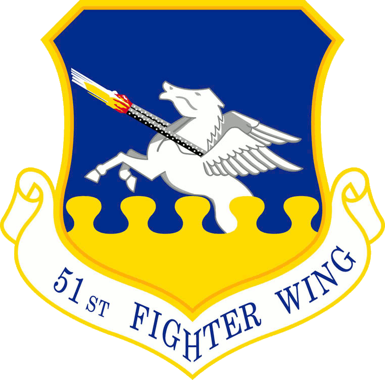 Emblem of the 51st Fighter Wing, a wing of the United States Air Force. Motto: LEADING THE CHARGE (originally DEFTLY AND SWIFTLY) [1]